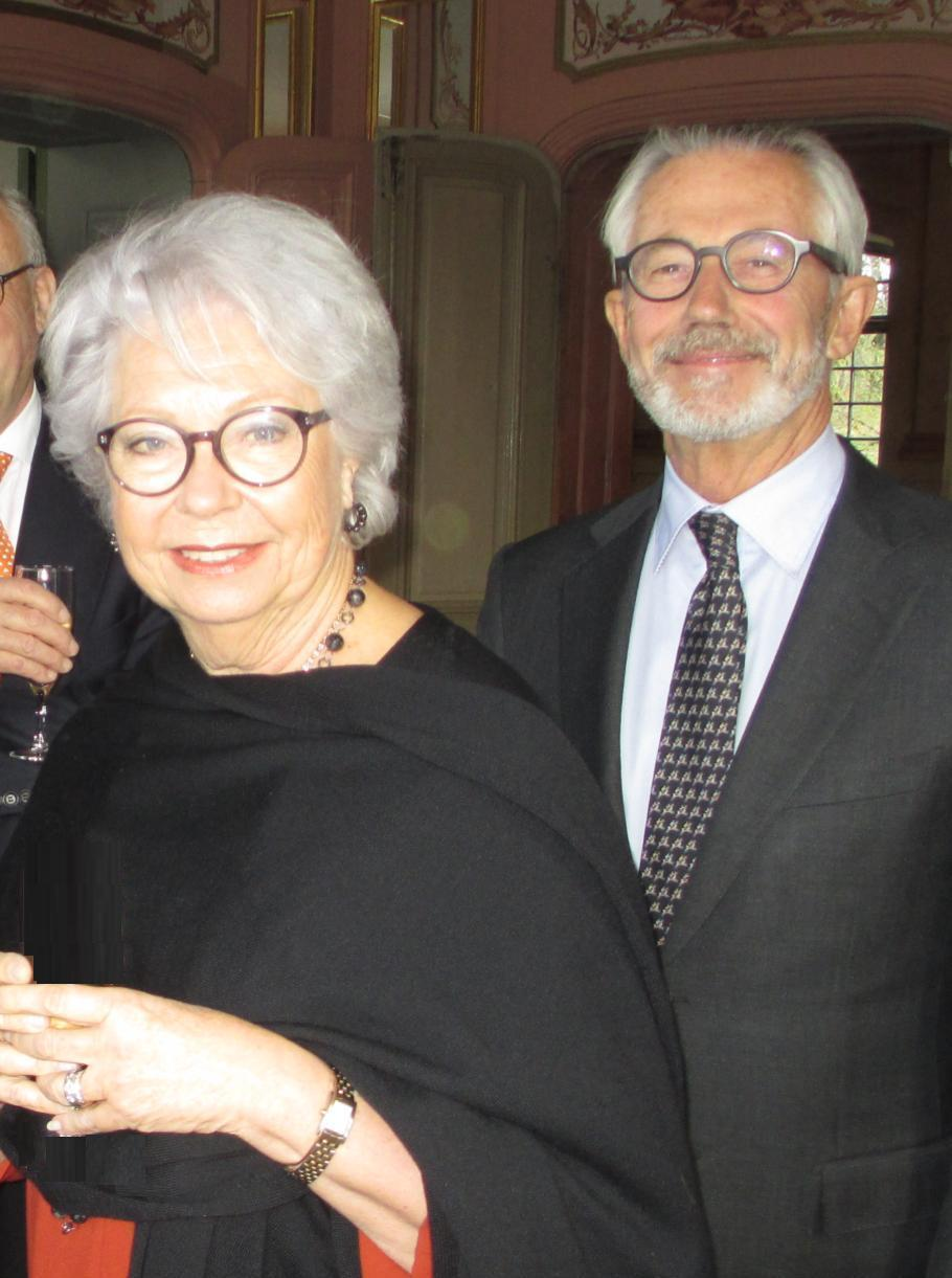 Princess Christina & husband Tord MagnusonPlace: Confidencen, Ulriksdal, Solna, Sweden